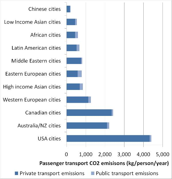 Graph of CO2 emissions by city for the year 1995. Graph created by me from data published in Kenworthy, JR (2002) Transport Energy Use and Greenhouse Gases in Urban Passenger Transport Systems: A Study of 84 Global Cities / Millennium Cities Database UITP KENWORTHY JR*